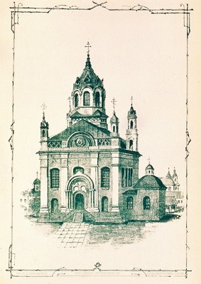 Orthodox church of the Holy Trinity in Vilnius, viewed in 19th century after being reconstructed in Russian Revival style